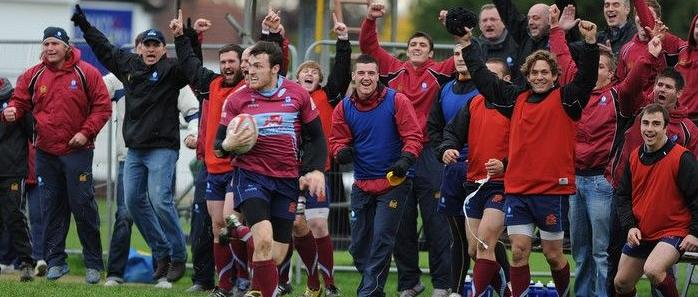 Rotherham Player Shane Monaham scores against Bristol